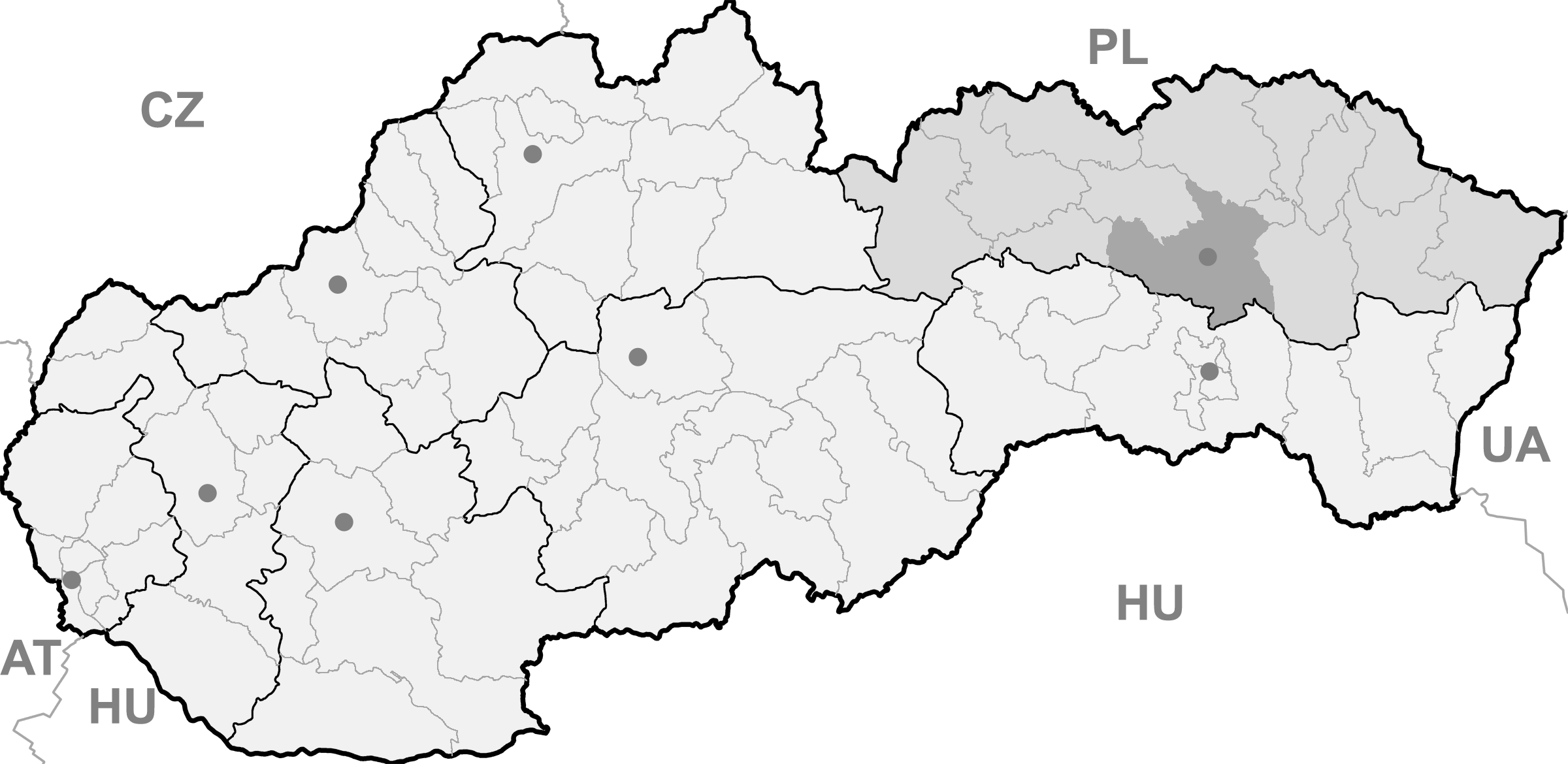 Map of Slovakia, Presov district and Presov region highlighted